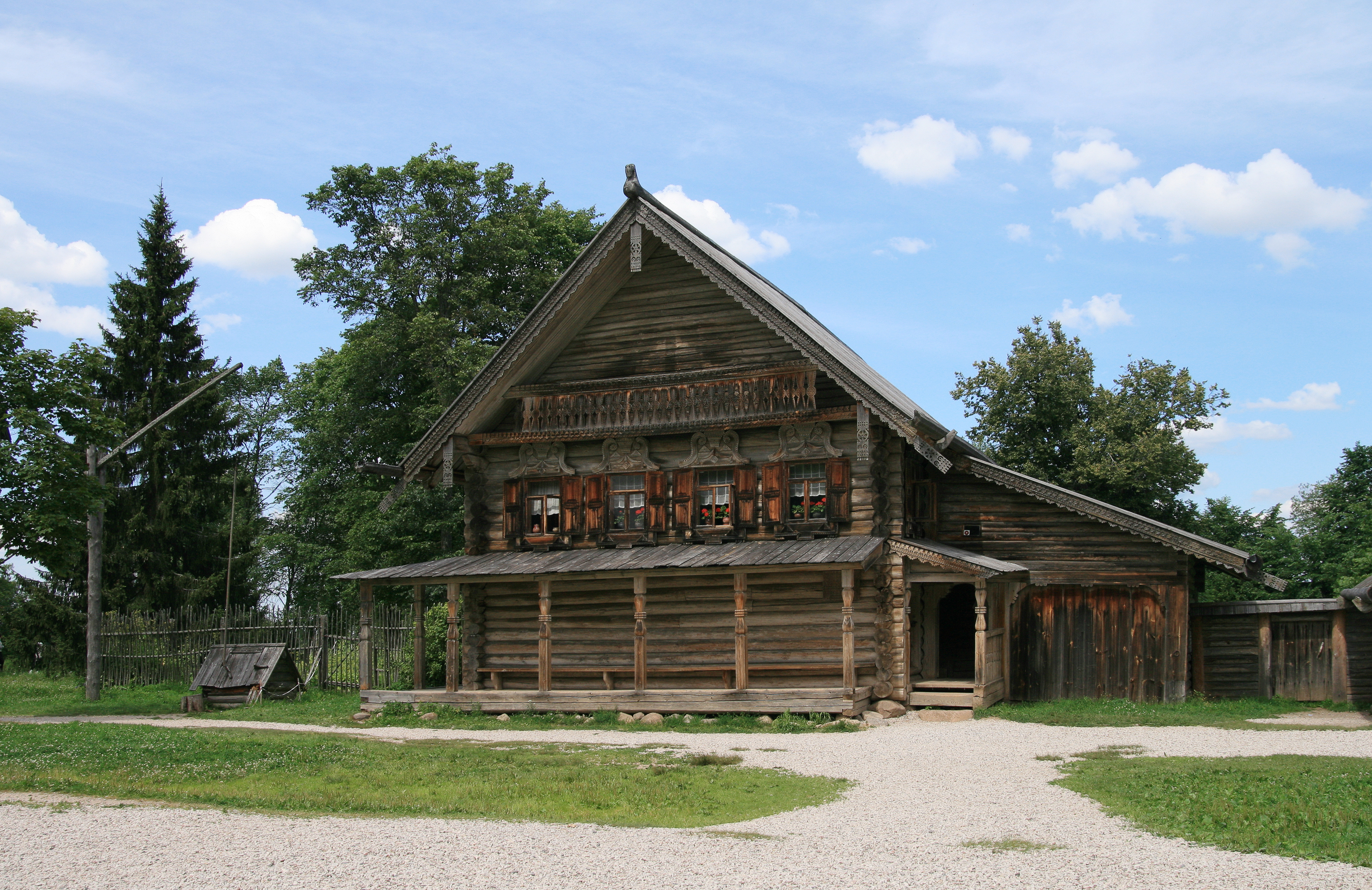 Yekimova House, Vitoslavlitsy museum, Veliky Novgorod